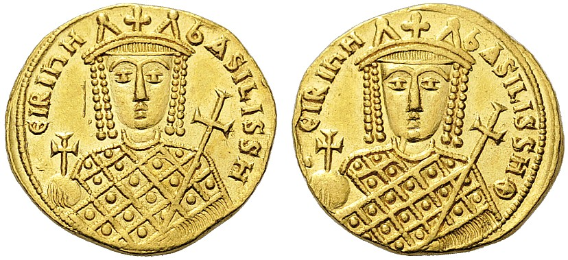 Irene. 797-802. Solidus (Gold, 18mm, 4.43 g 6), Constantinople. ϵIRInH bASILISSH Bust of Irene facing, wearing loros and crown with cross, pinnacles and pendilia, holding a globus cruciger in her right hand and a cross tipped scepter in her left. Rev. ϵIRInH bASILISSHΘ Bust of Irene facing, wearing loros and crown with cross, pinnacles and pendilia, holding a globus cruciger in her right hand and a cross tipped scepter in her left.